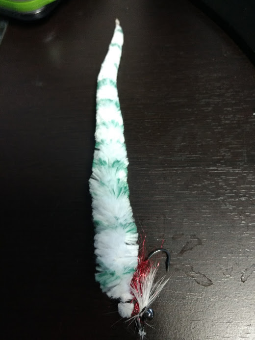 A dragon tail fly, a fishing lure or streamer, which utilizes the Squirmles toy as a base.